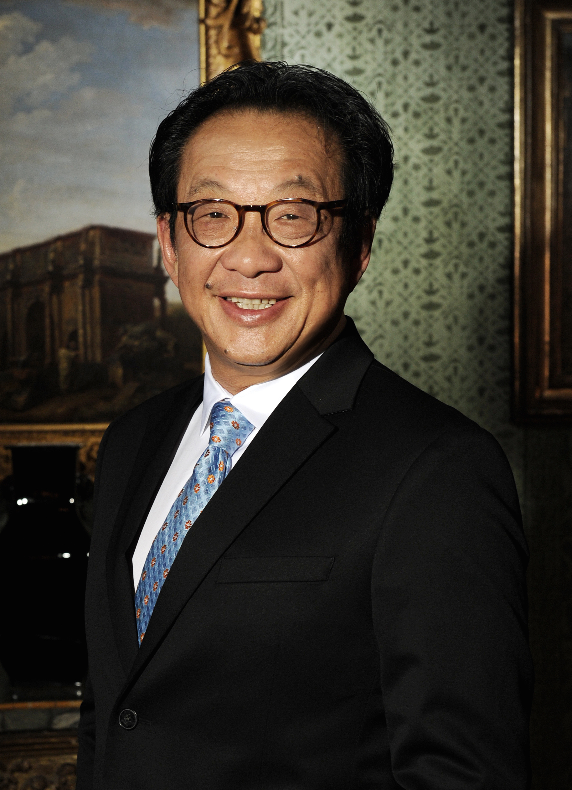 This photo is own shot good for Francis wiki